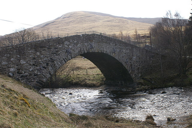 Old bridge at Spittal of Glenshee This hump-backed bridge over the Shee Water has now been bypassed.